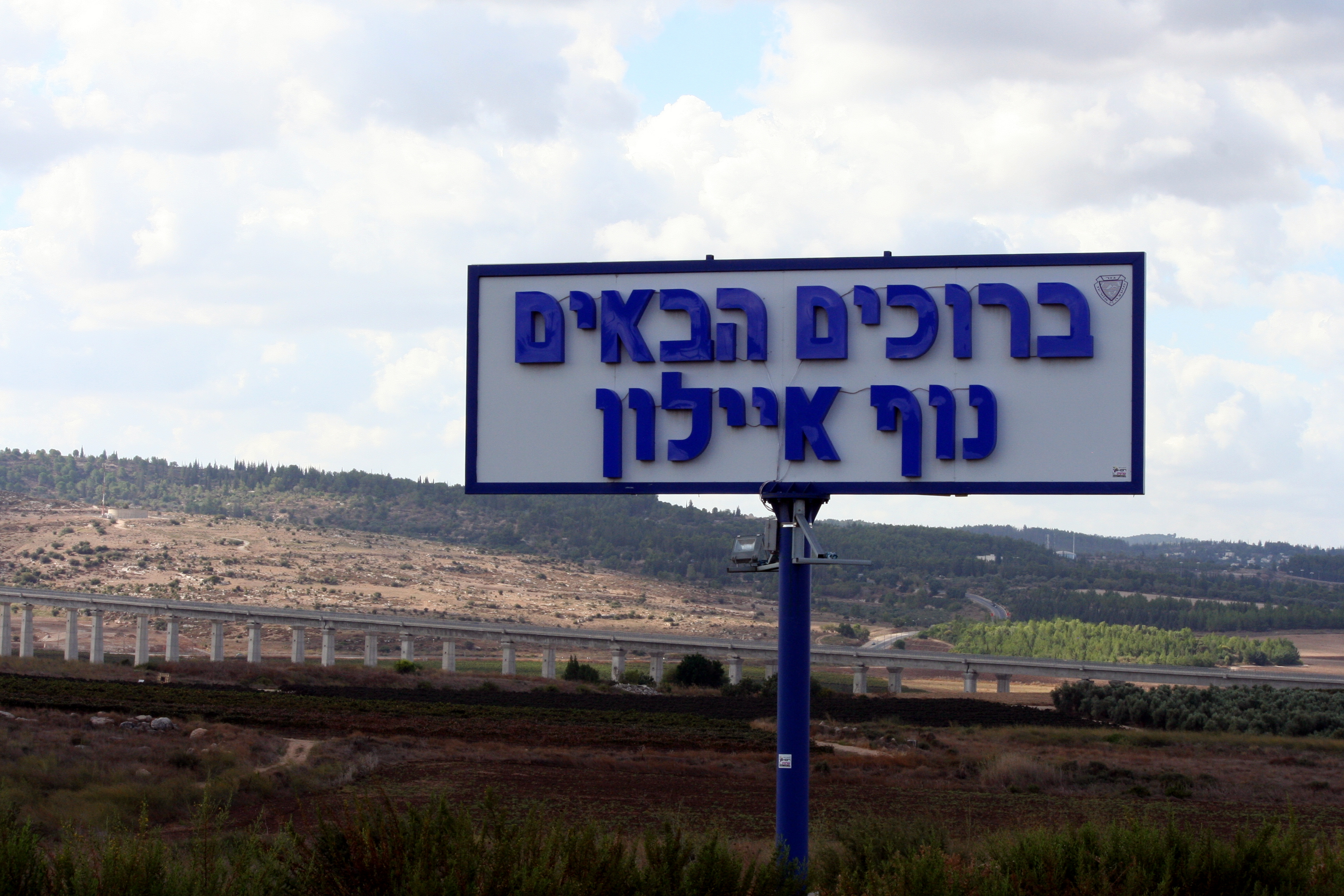 Nof Ayalon (Hebrew: נוף איילון, lit. Ayalon View) is a communal settlement in central Israel.